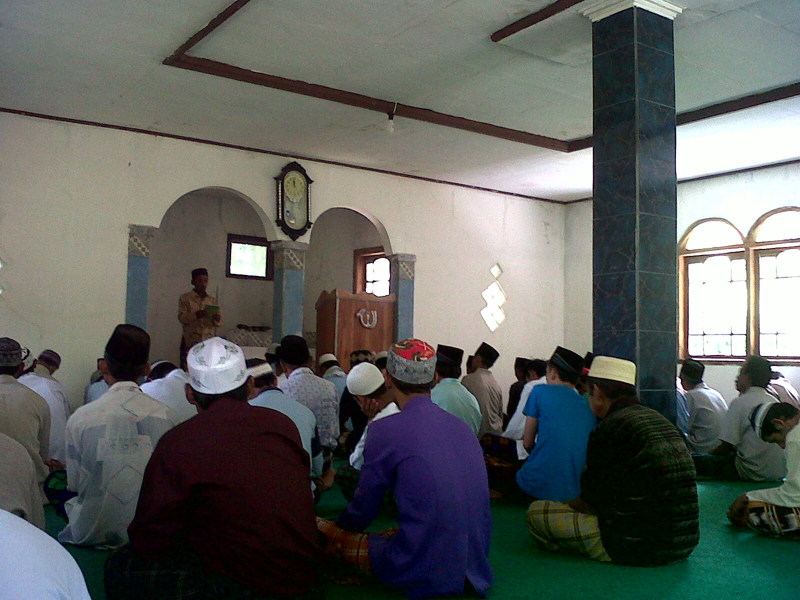 Congregation at the Al-Hidayah Mosque in Pasirhuni, Indonesia